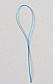 Floss Threader Picture